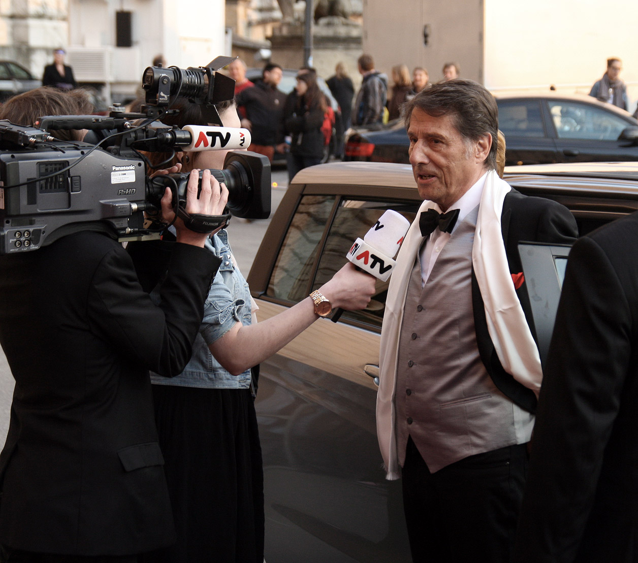 Udo Jürgens at the Romy TV awards (Hofburg Imperial Palace in Vienna)